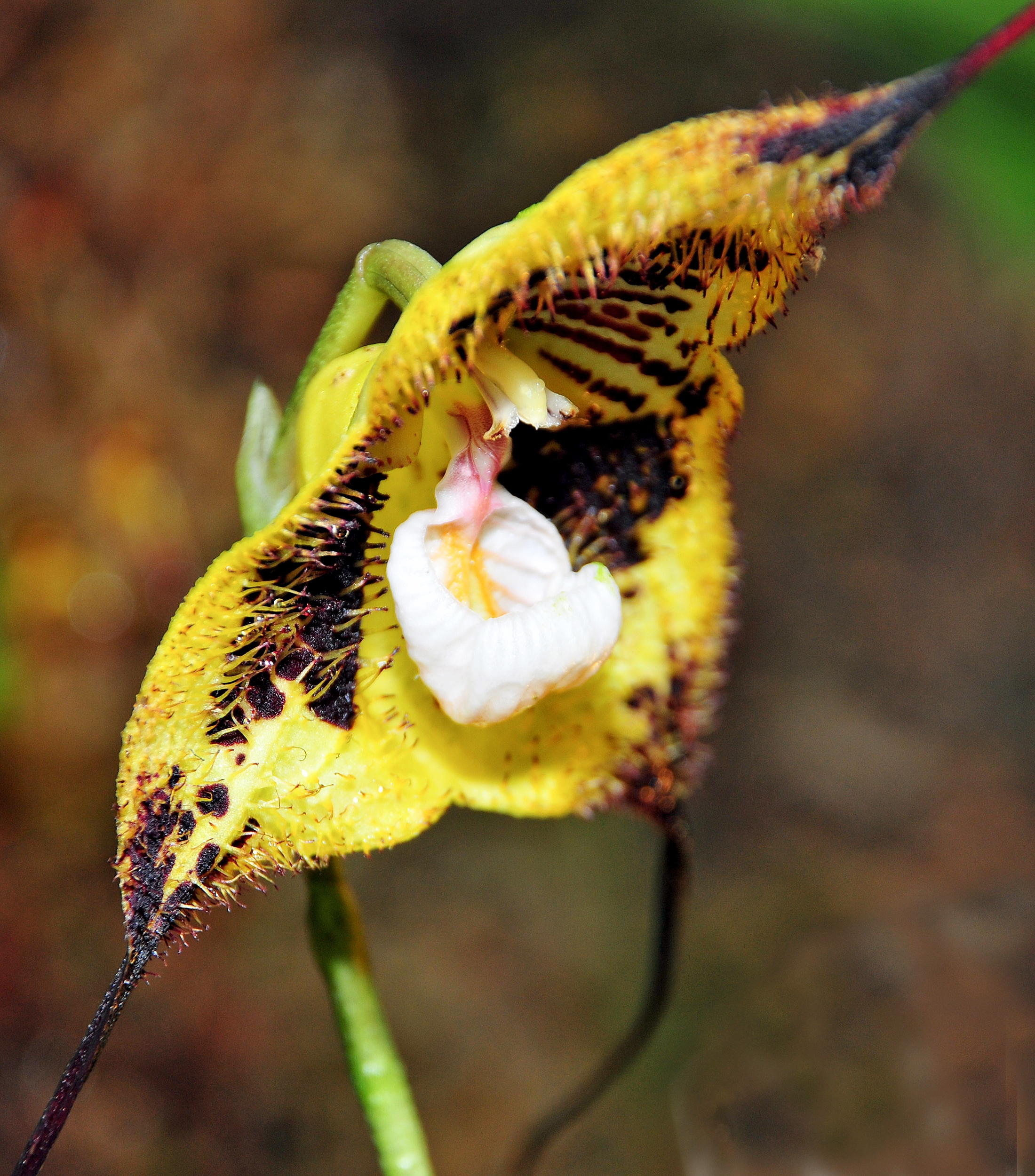 Dracula robledorum, a show award winner.